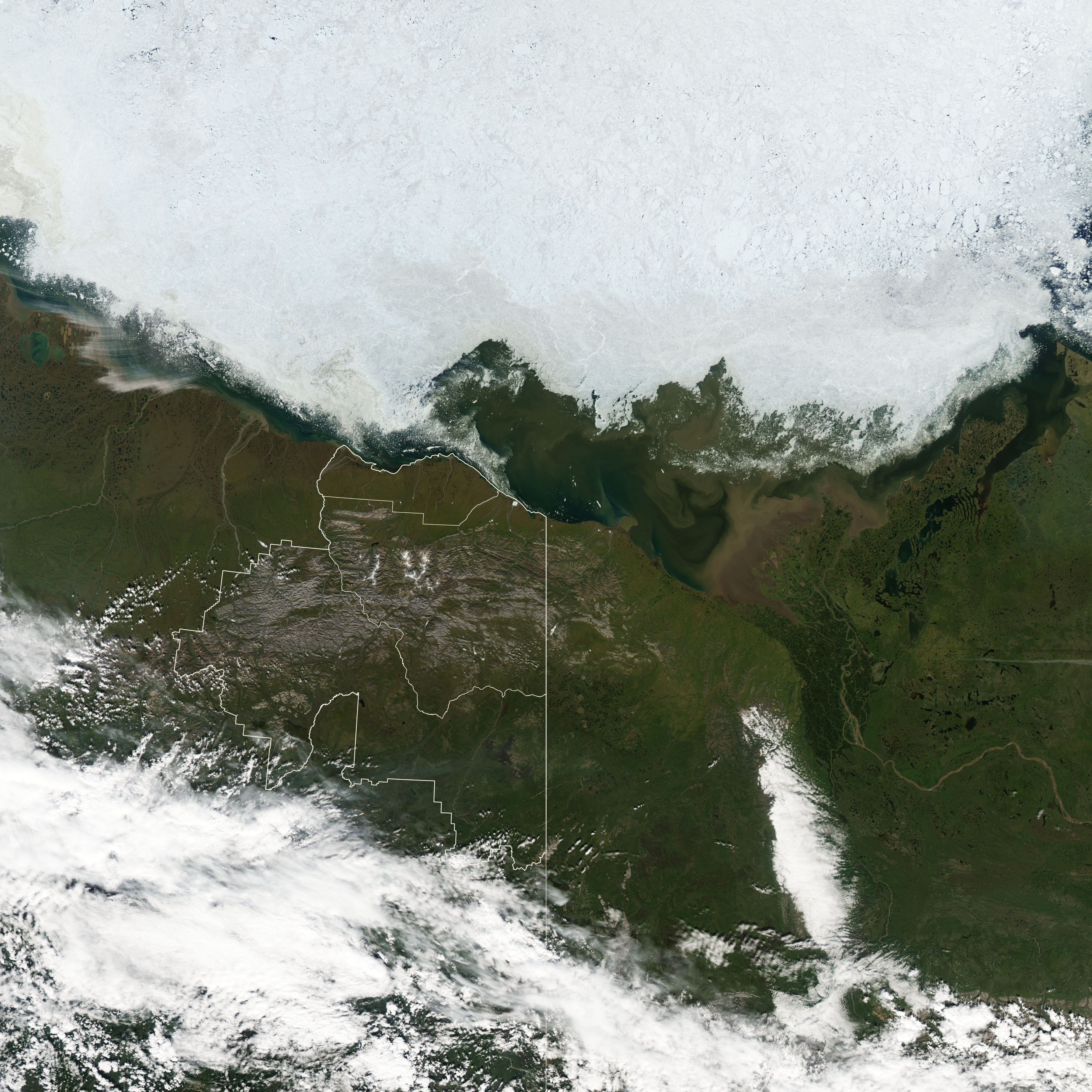 Natural-colour image of Arctic National Wildlife Refuge. Thick white lines delineate refuge boundaries, and thin white lines separate areas within the park. Running roughly east west, the rugged Brooks Range spans the middle part of the park. North of the Brooks Range lies tundra, and south of the range lies forest dominated by spruce trees.